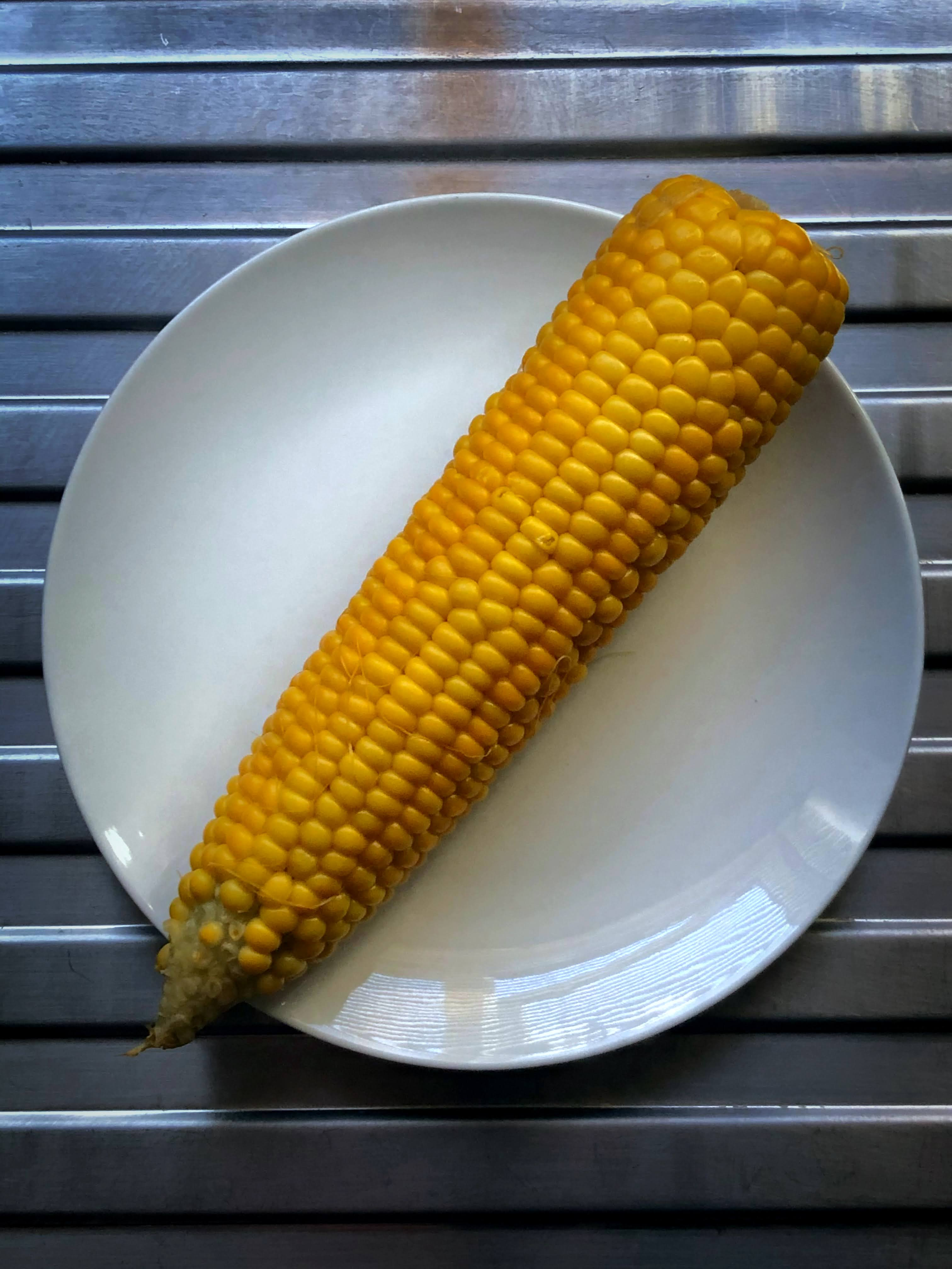 The corn was bought from the supermarket. It was wrapped in its own green leaves. It's regular sweet corn that is sold in the UK. The picture was taken with iPhone X.